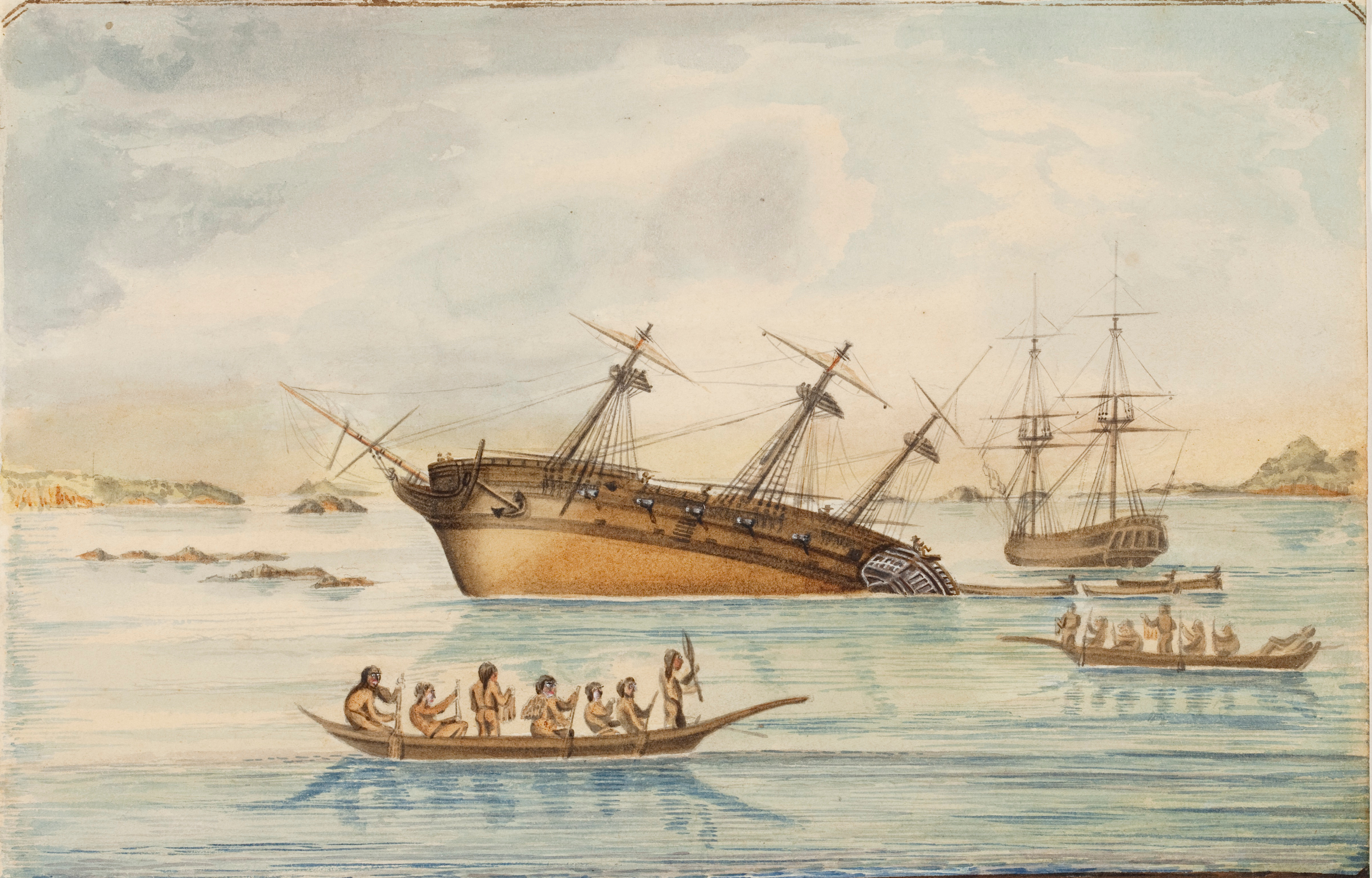 A drawing showing George Vancouver's ship Discovery on the rocks in Queen Charlotte Strait. The ship ran aground in early August 1792 on hidden rocks near Fife Sound. His other ship, Chatham, in the background in this scene, also ran aground on rocks within the day, about two miles away. The drawing was printed in the Vancouver's book A Voyage of Discovery to the North Pacific Ocean, and Round the World, published in 1801, London, by John Stockdale. The 1801 book's title page states "A new edition, with corrections, illustrated with nineteen views and charts", but does not identify the artist who made the drawing.